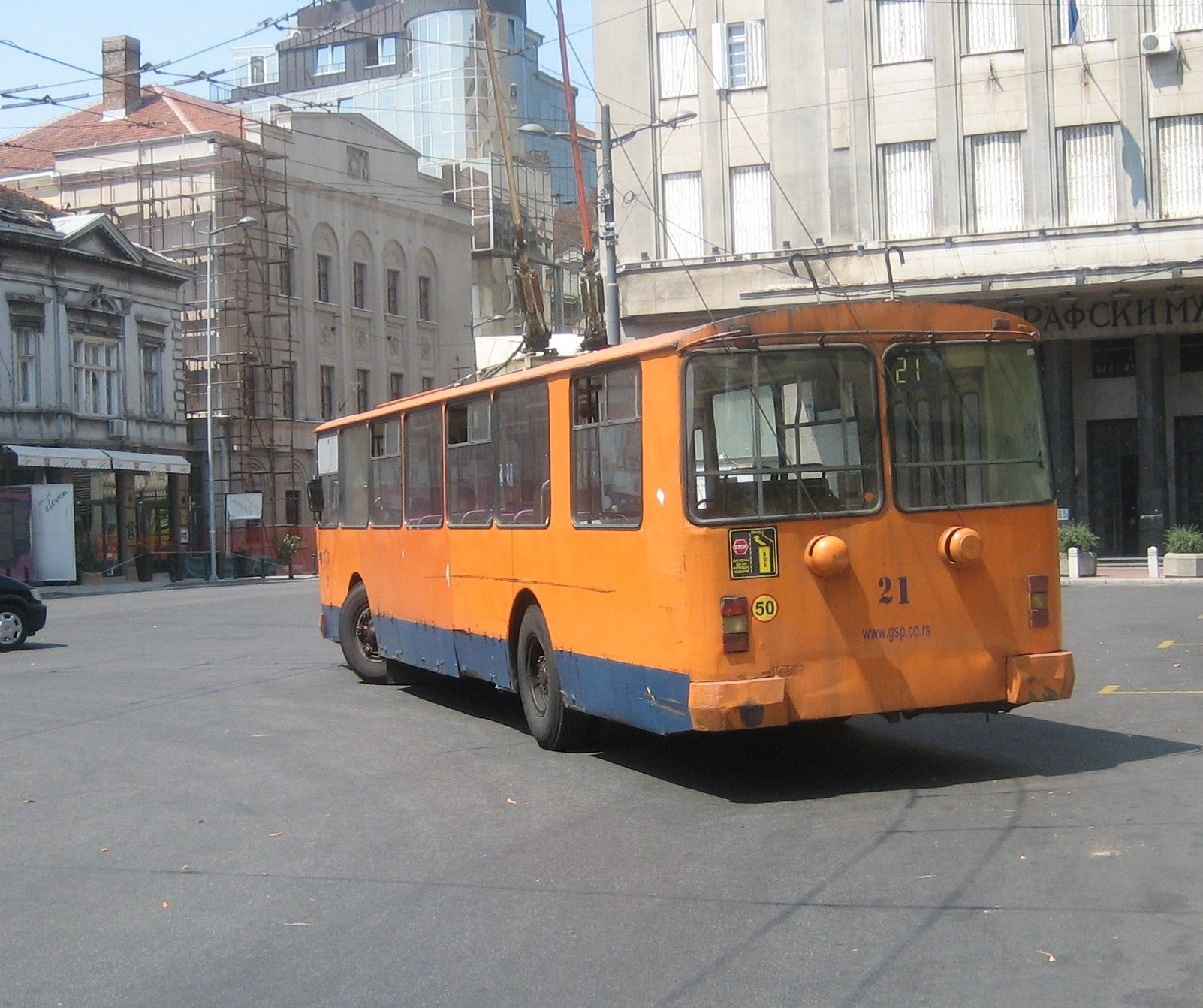 Public transport bus in Belgrade, Serbia